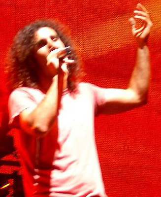 Serj Tankian (System of a Down) on stage